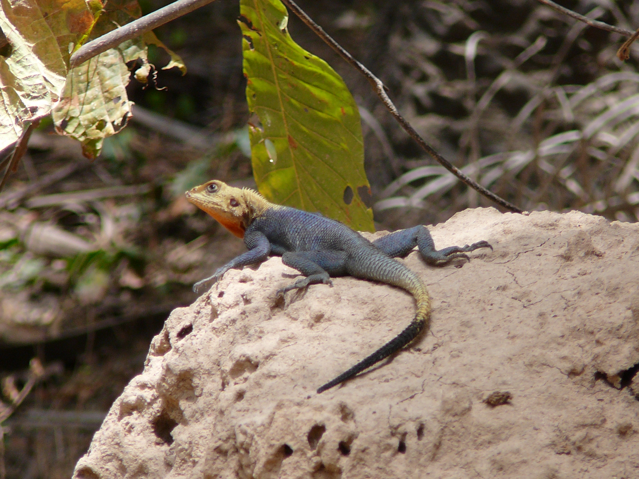 Agama lizard, male